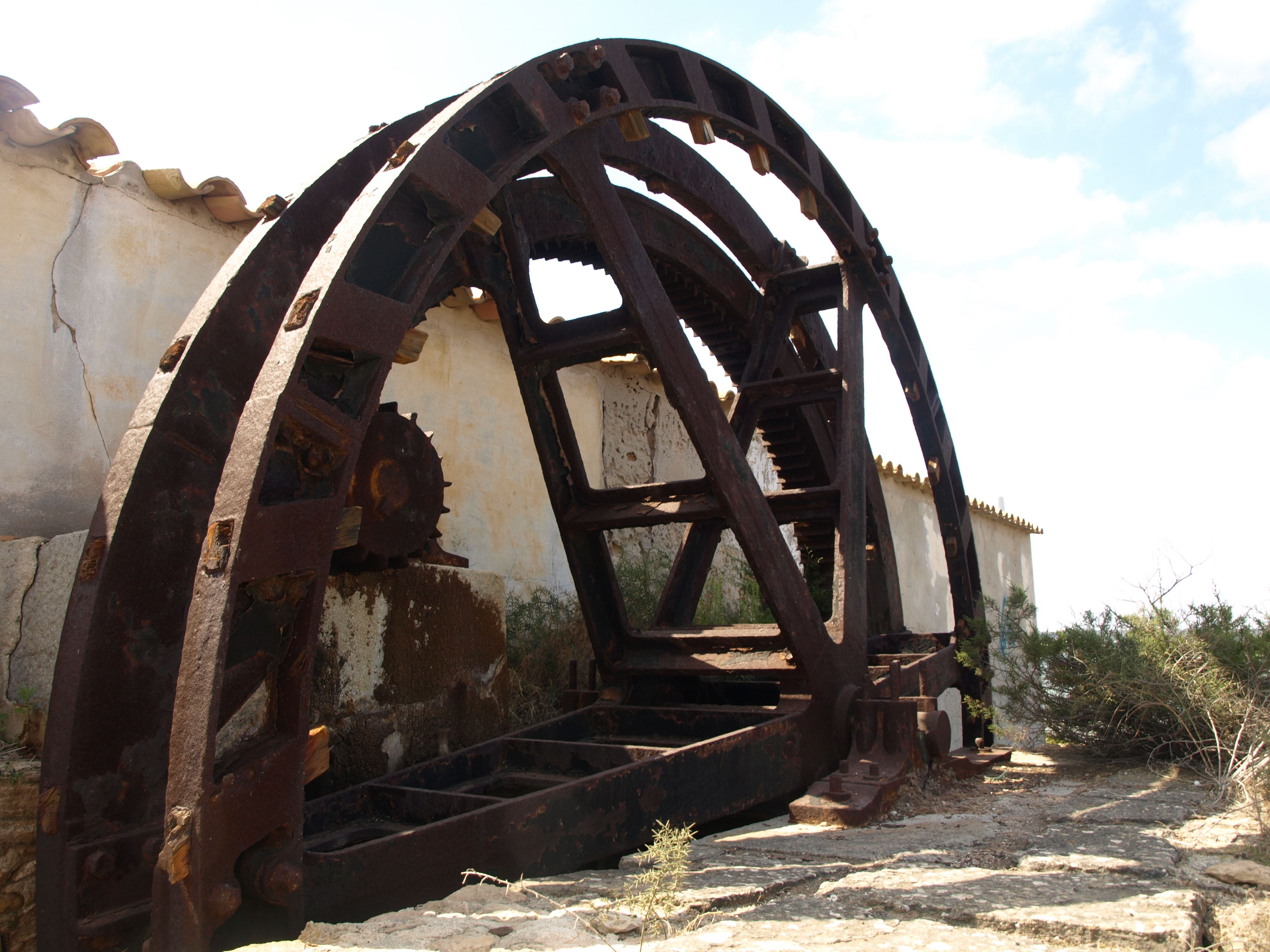 Salted water pumping station used to feed the salt evaporation ponds in Formentera Place Lloc/Place: Salines de Formentera, Estany Pudent